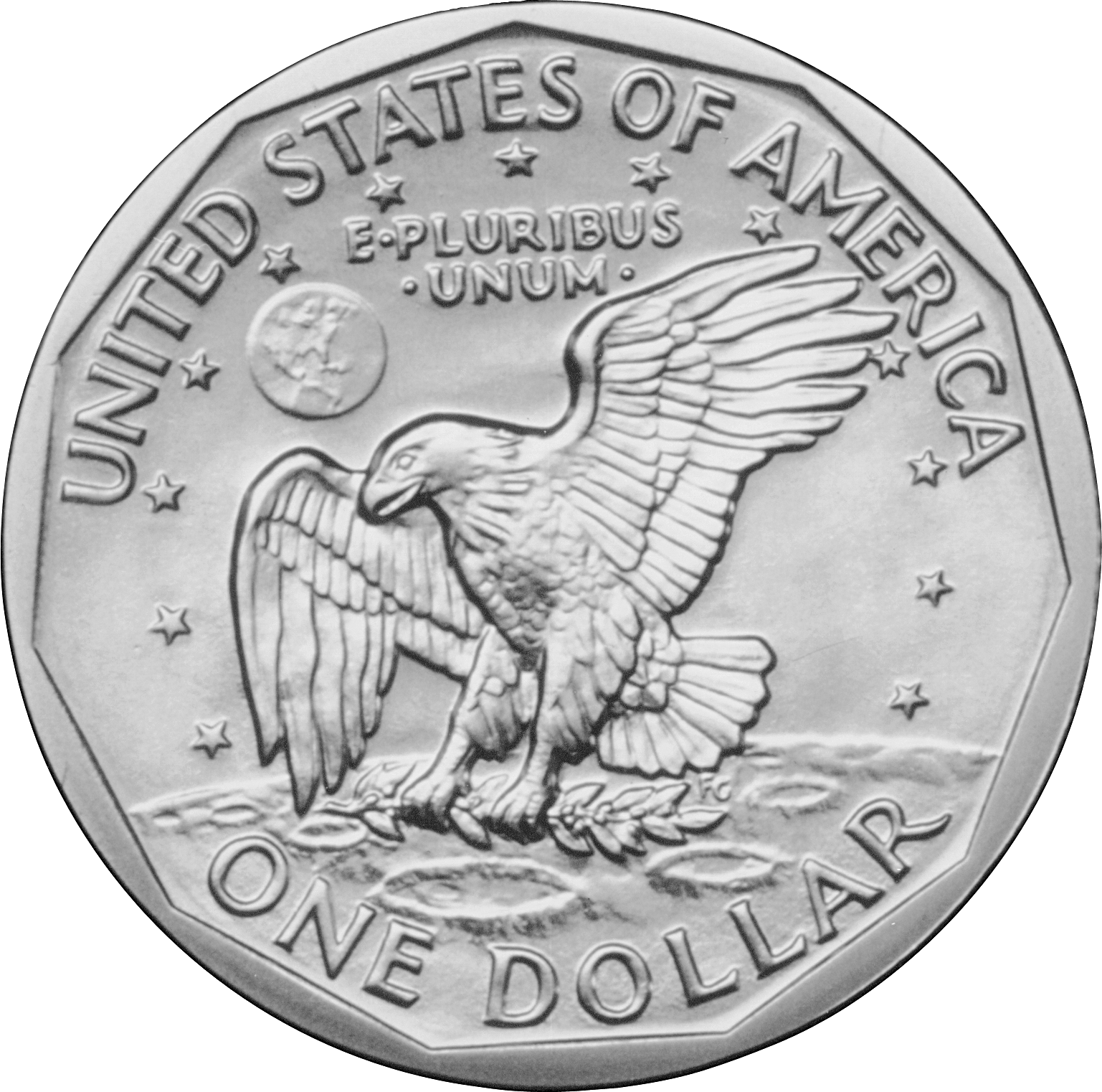 Reverse of a 1999 Susan B. Anthony dollar. Removed background, cropped, and converted to PNG with Macromedia Fireworks.